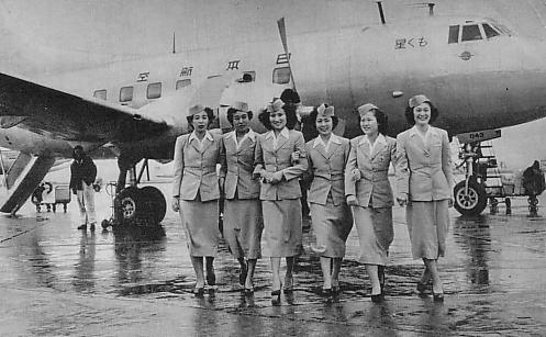 Japan Airlines aircraft Mokusei (もく星, "Jupiter"), a Martin 2-0-2.